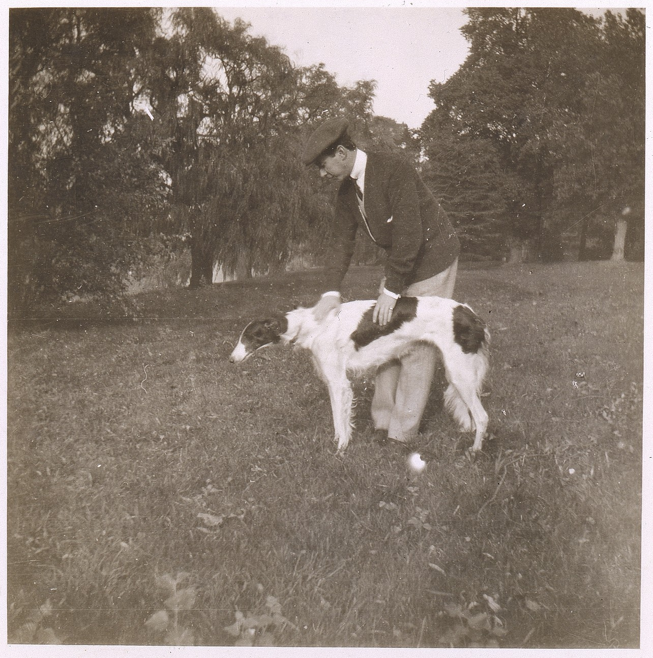 Adolf de Meyer and his dog circa 1905-1910